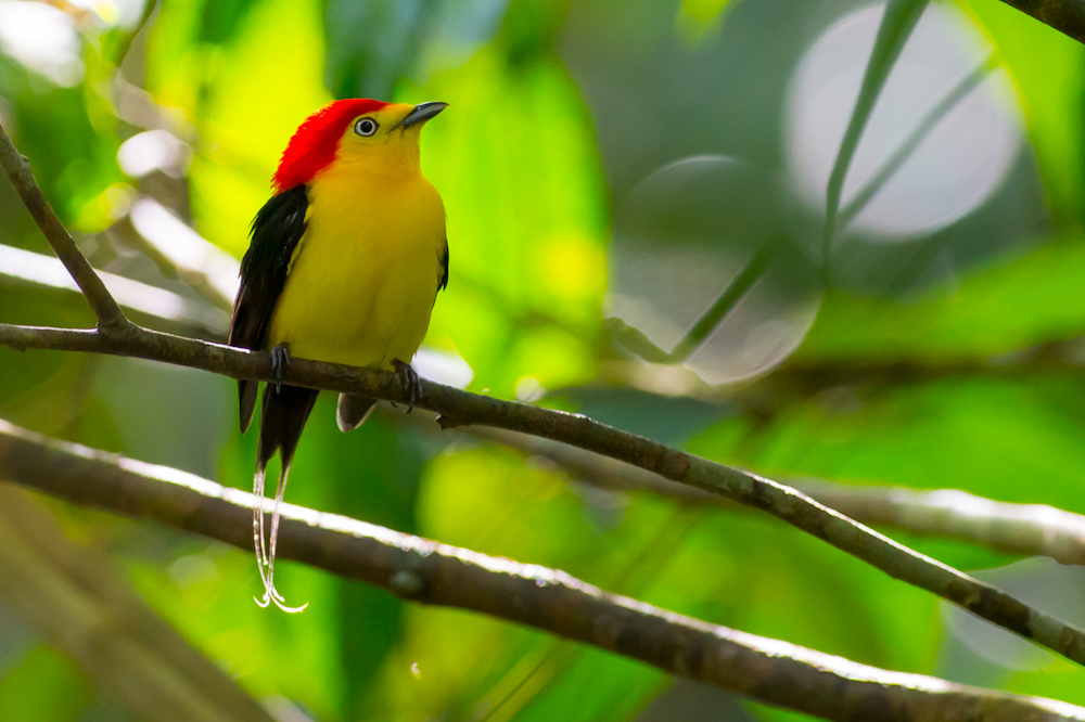 Pipra filicauda - Wire-tailed Manakin